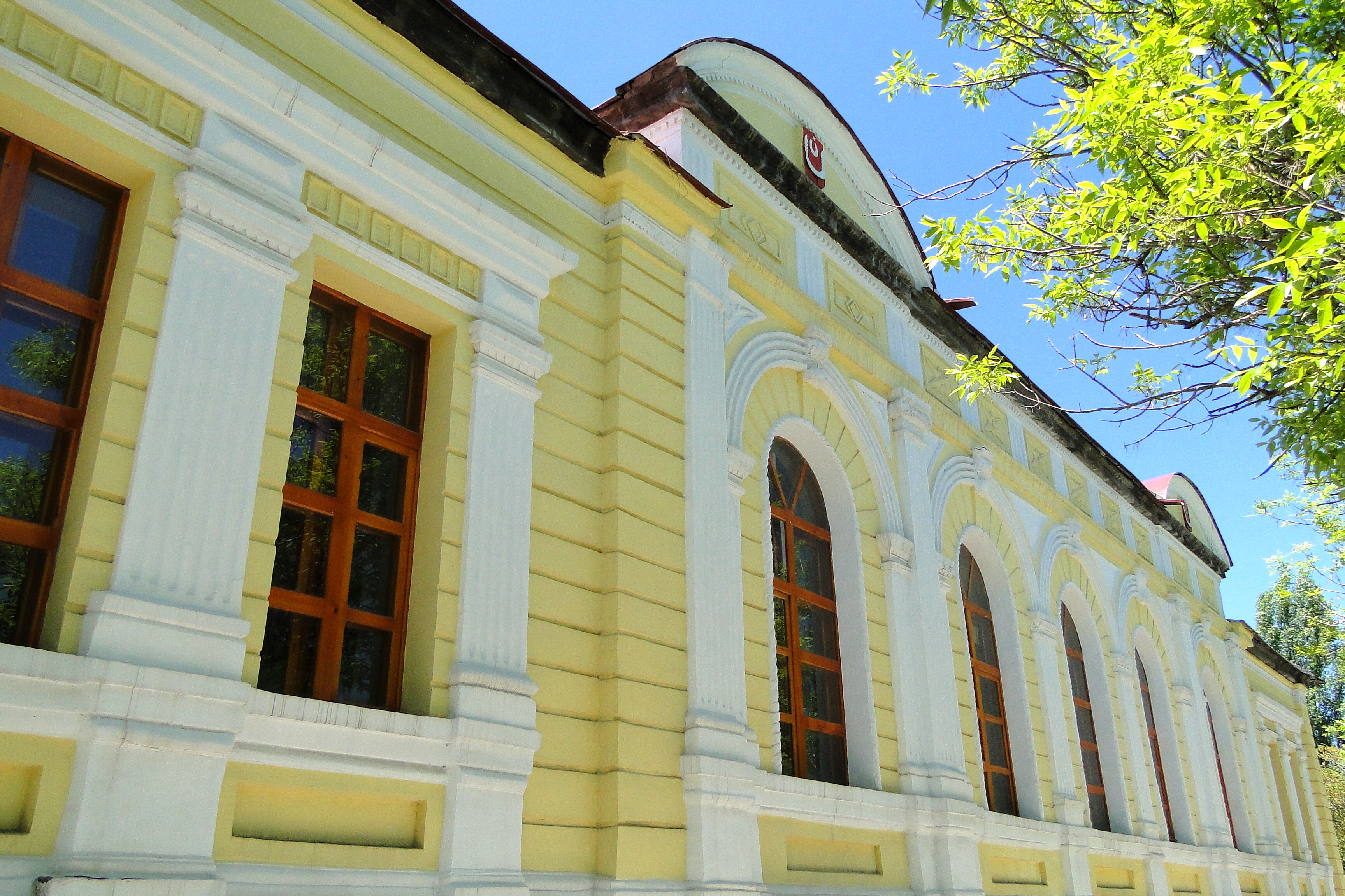 Old Governor's Mansion - Built 1883 - Where Treaty of Kars Was Signed - Kars - Turkey